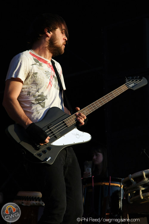 Tim Kelleher performing with Thirty Seconds to Mars in October 2010